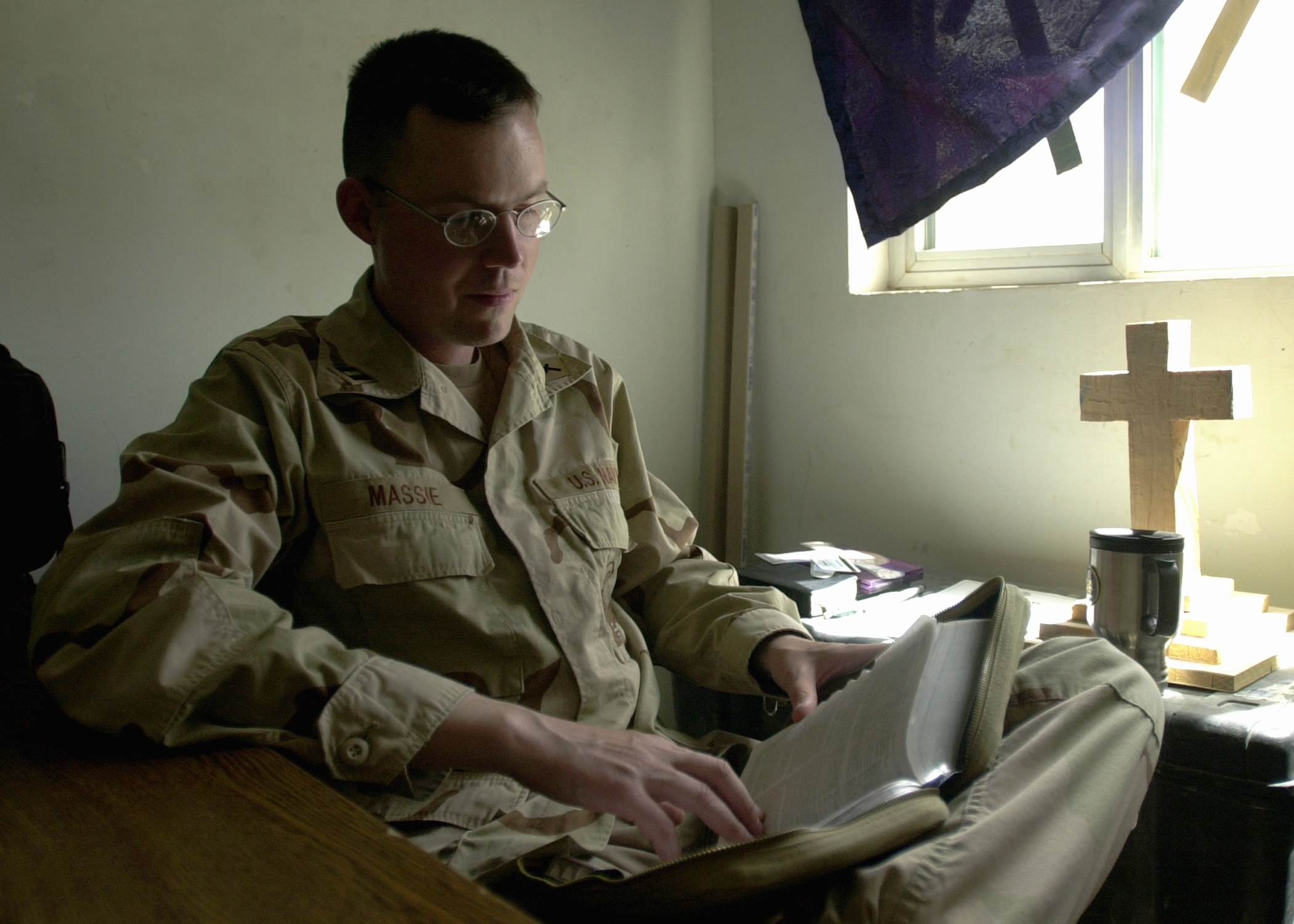 Fallujah, Iraq (Mar. 27, 2004) – Navy chaplain, Lt. Marc Massie assigned to Naval Mobile Construction Battalion Seventy Four (NMCB-74) studies his Bible for an upcoming service. Massie is also the head coordinator for the battalions United Through Reading Program, which enables deployed sailors to read stories on video tape to their children, which are then mailed home to their loved ones. NMCB-74 is currently deployed in support of Operation Iraqi Freedom (OIF).